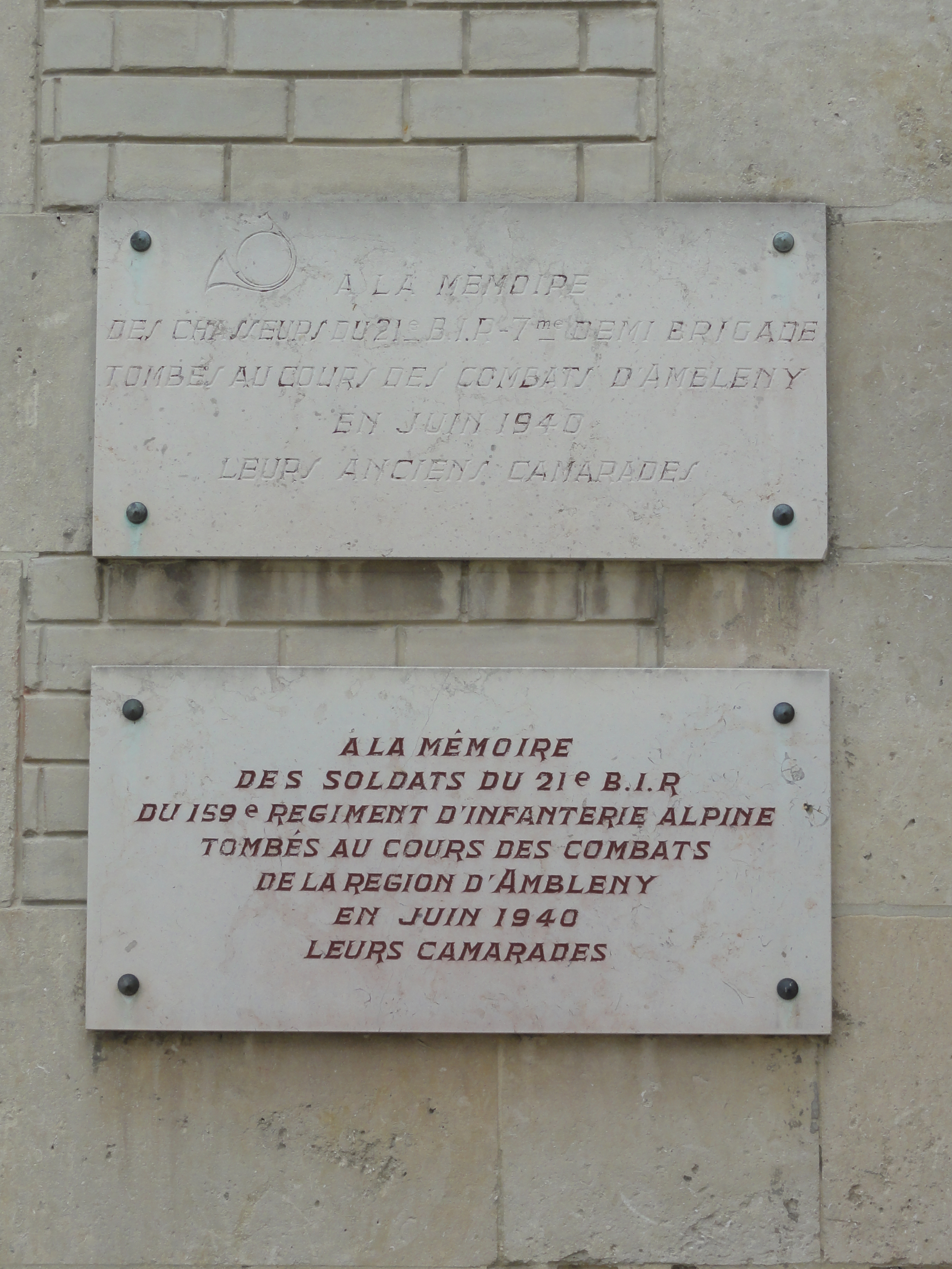 Ambleny (Aisne) mémorial de guerre, juin 1940